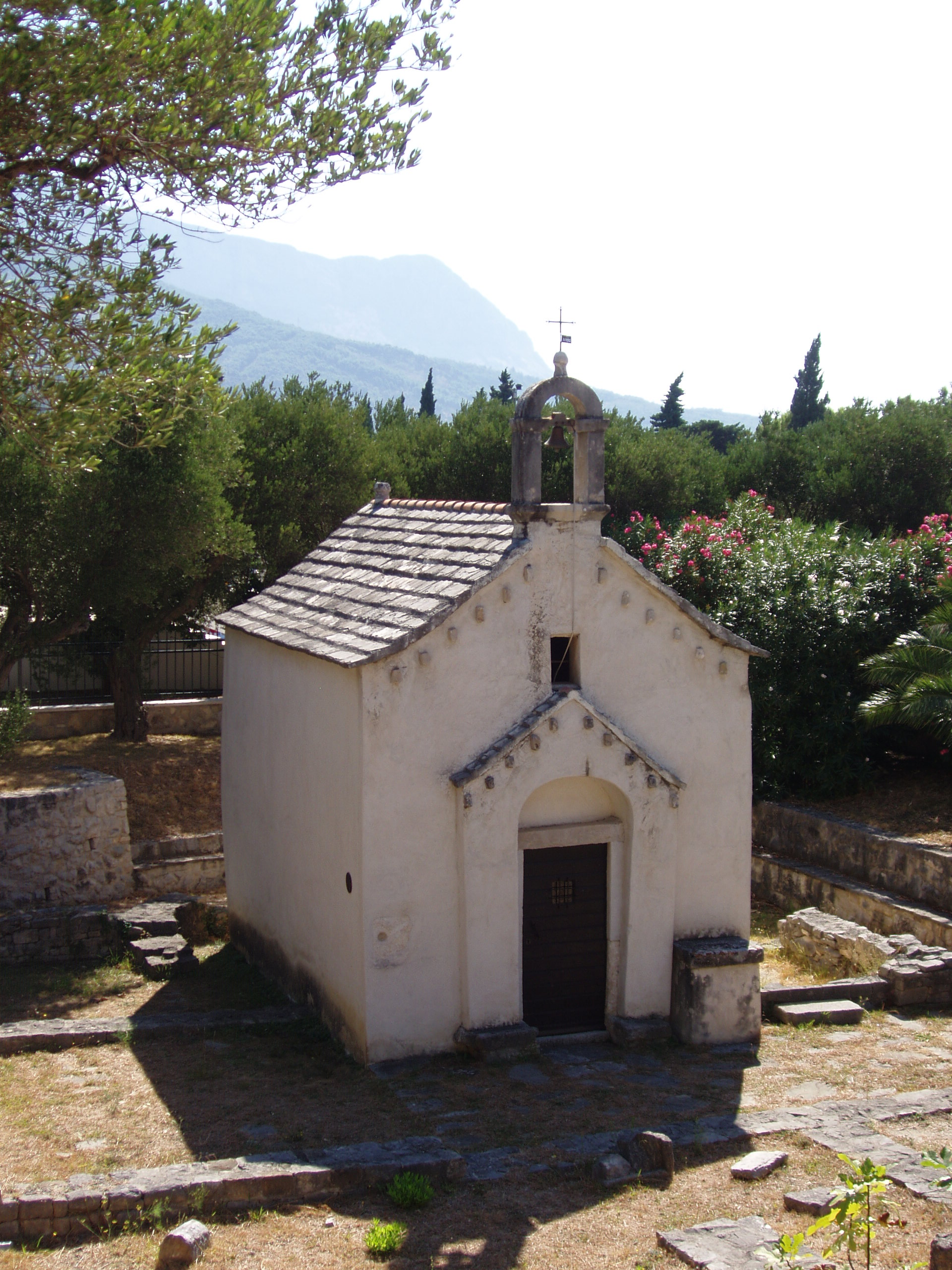 St. George Church in Tučepi, Croatia